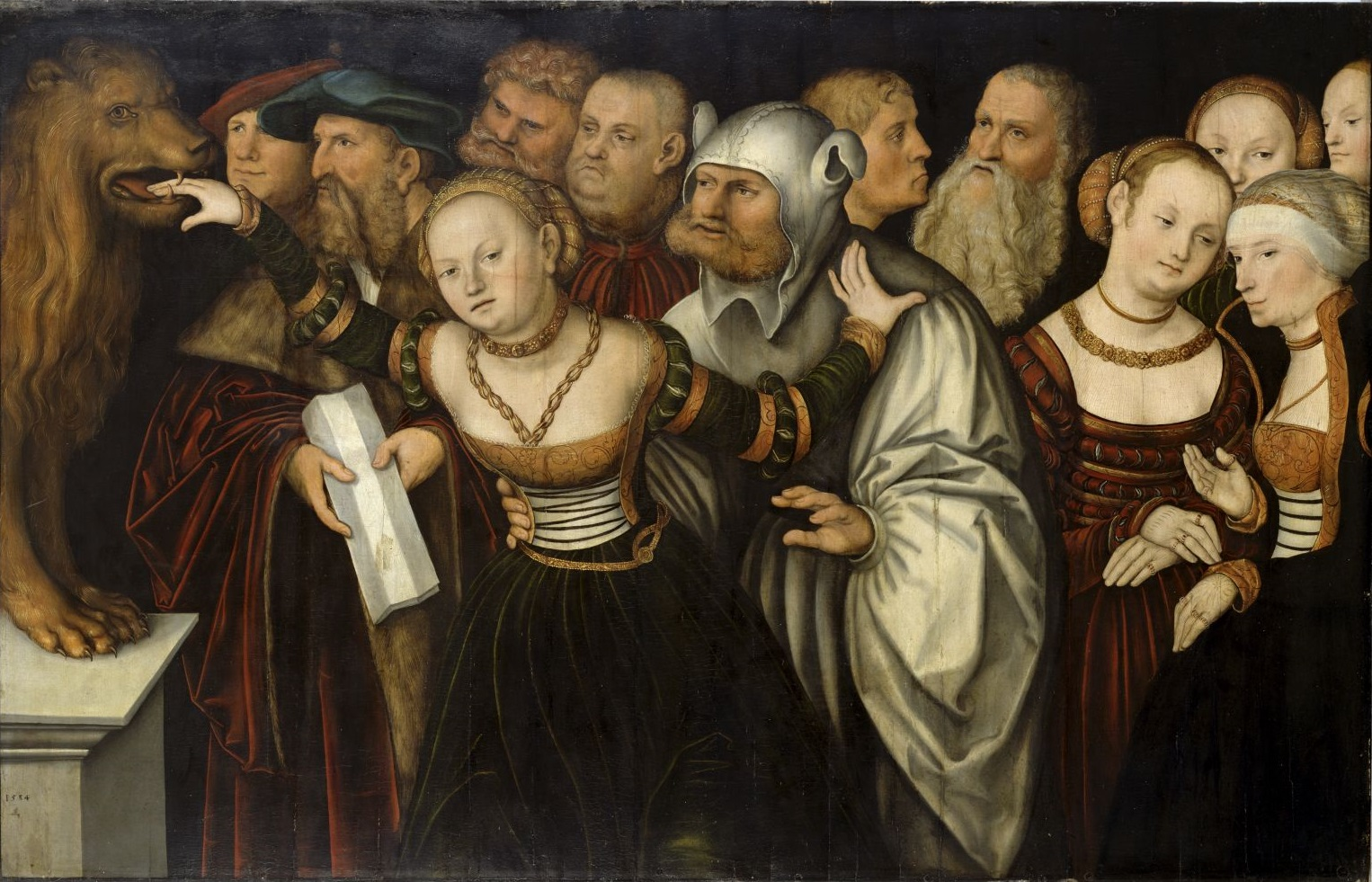 The Fable of the Mouth of Truth. Painting on beechwood. The painting depicts the frequently employed late medieval theme of the "Wiles of Women". A woman charged with infidelity lays her hand in the jaws of the lion. She confesses only to have lain in the arms of her husband and the fool behind her. Because she is speaking the truth, the lion does not bite off her hand. The fool is, in fact, her disguised lover, but he is not taken seriously by any of the witnesses. The scene alludes to the Roman stone mask "bocca della veritá", which according to legend bites off the hand of every liar.